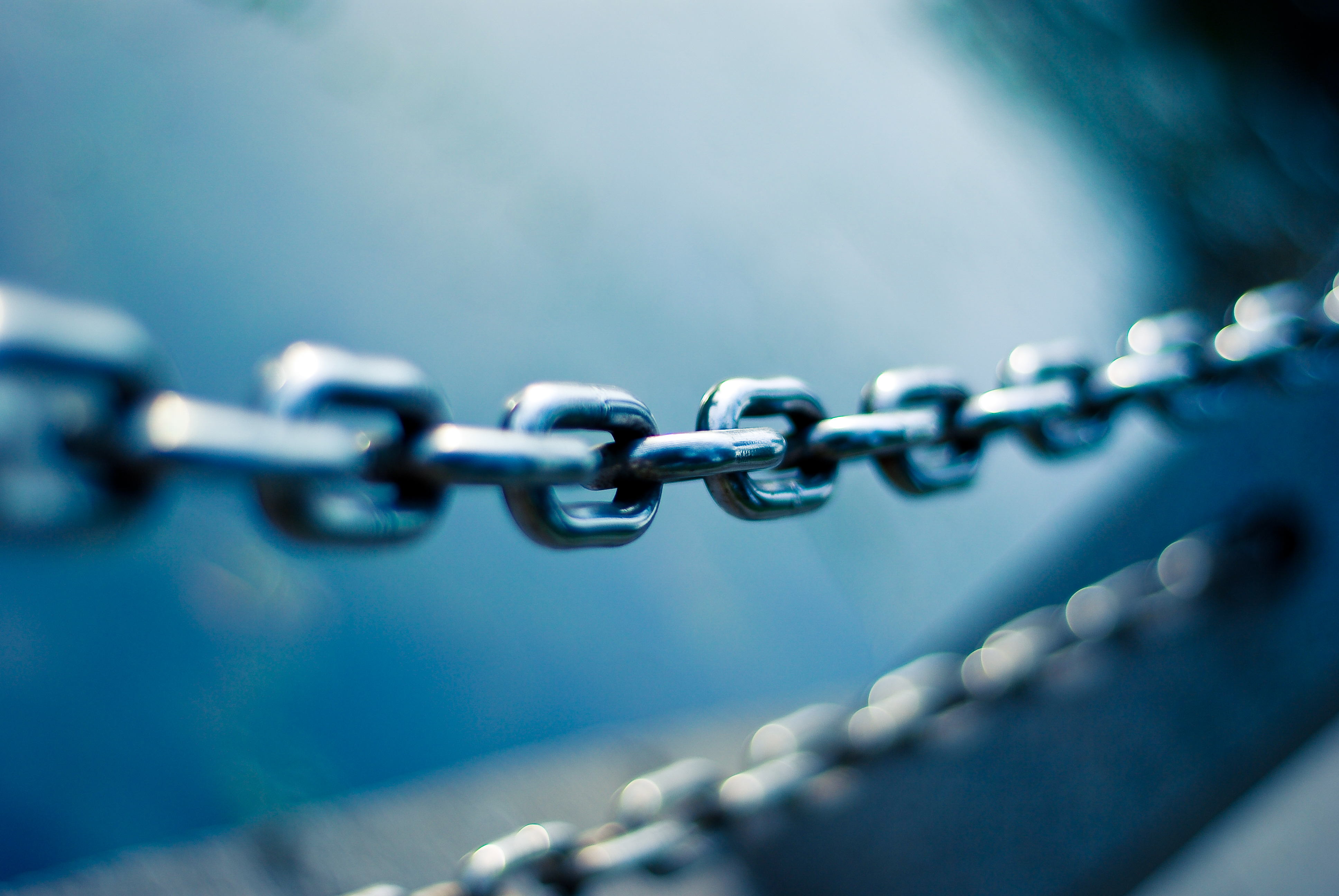 Shanghai, China